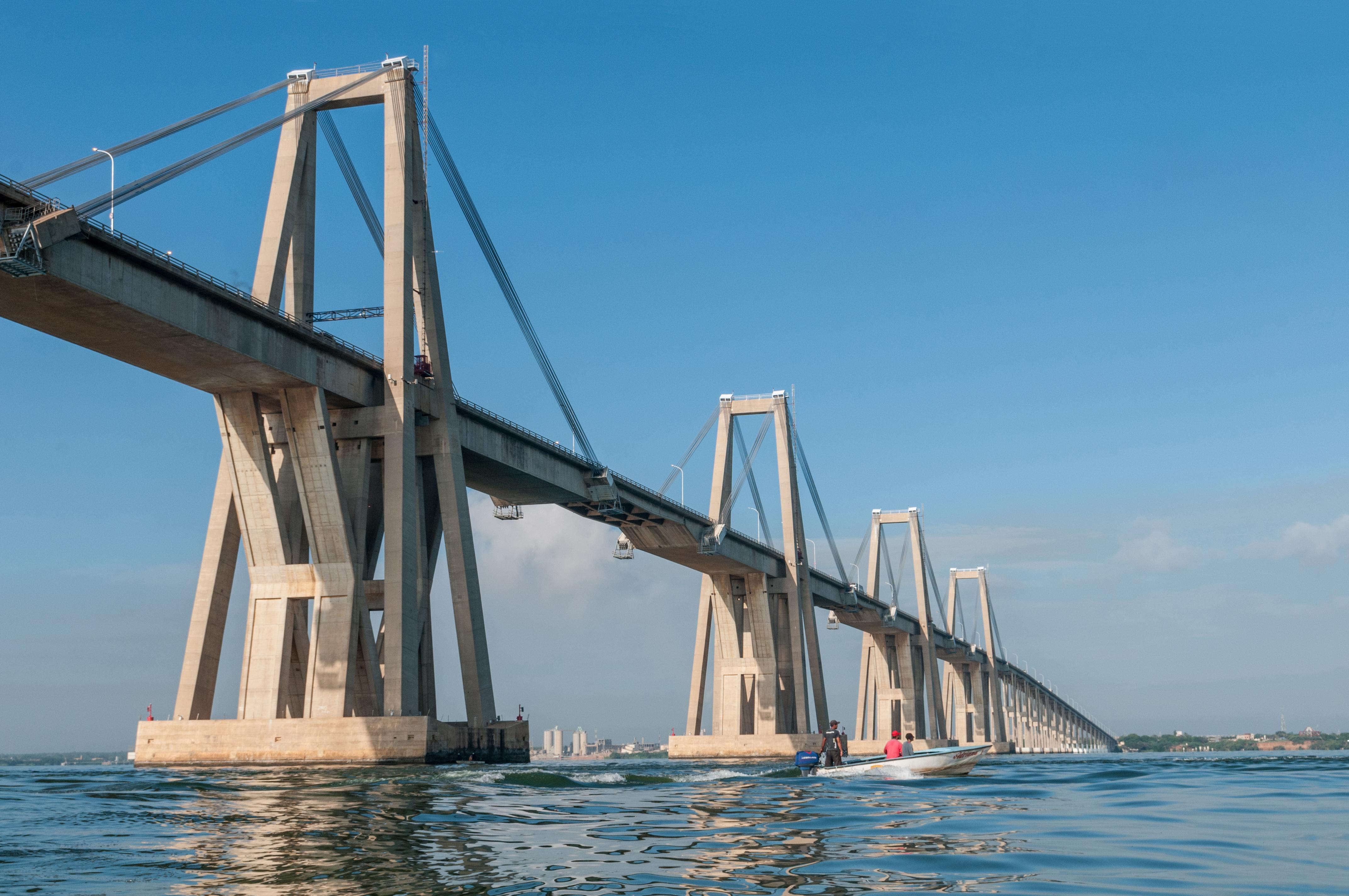 General Rafael Urdaneta Bridge view from the lake to Cabimas side by italian engineer: Riccardo Morandi